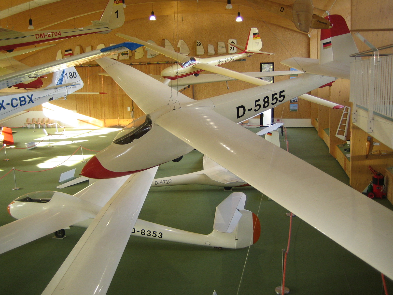 Glider Scheibe "Zugvogel III", displayed at the Deutsches Segelflugmuseum